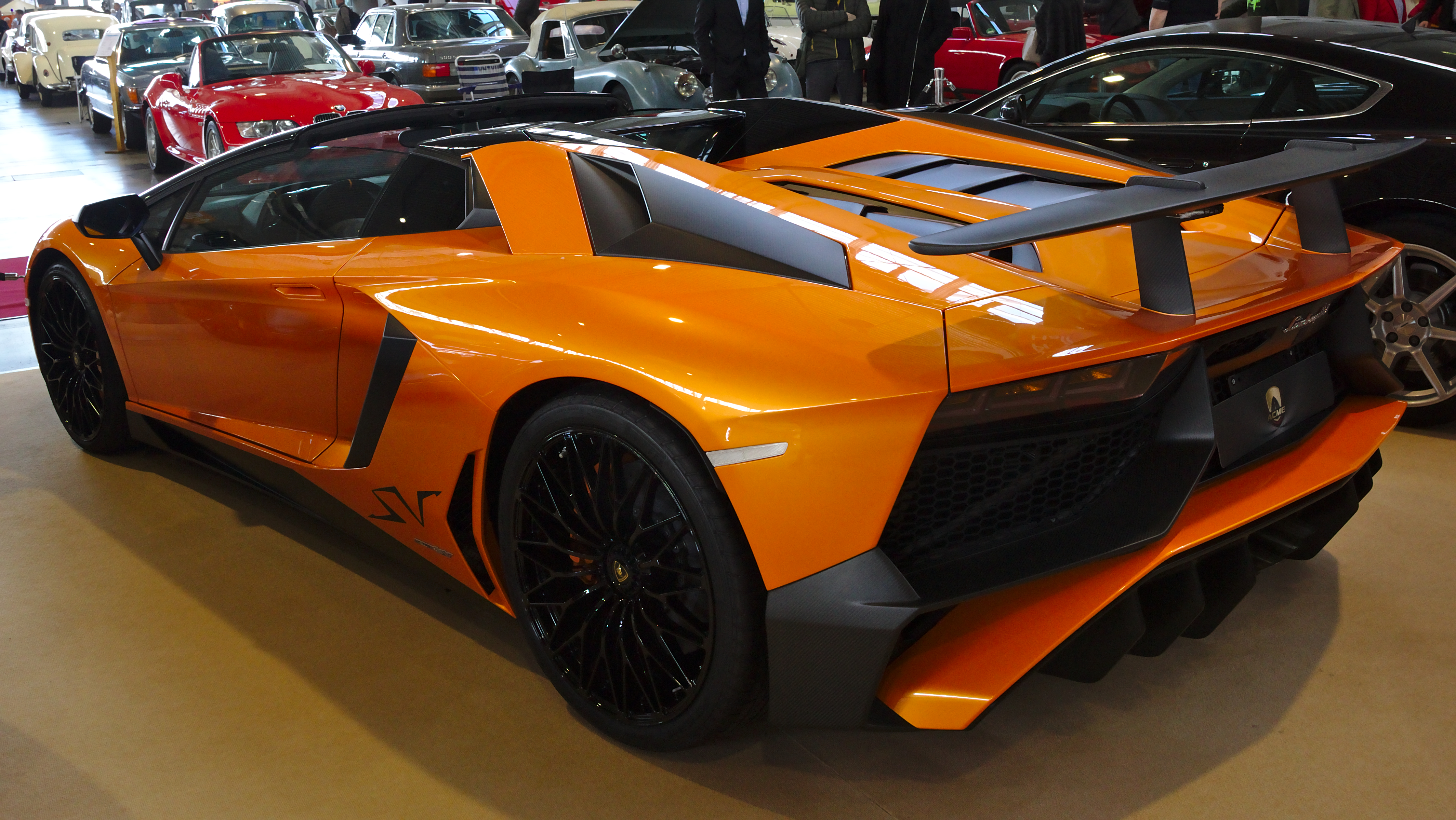 Lamborghini Aventador LP 750-4 SV Roadster at Retro Classics 2019